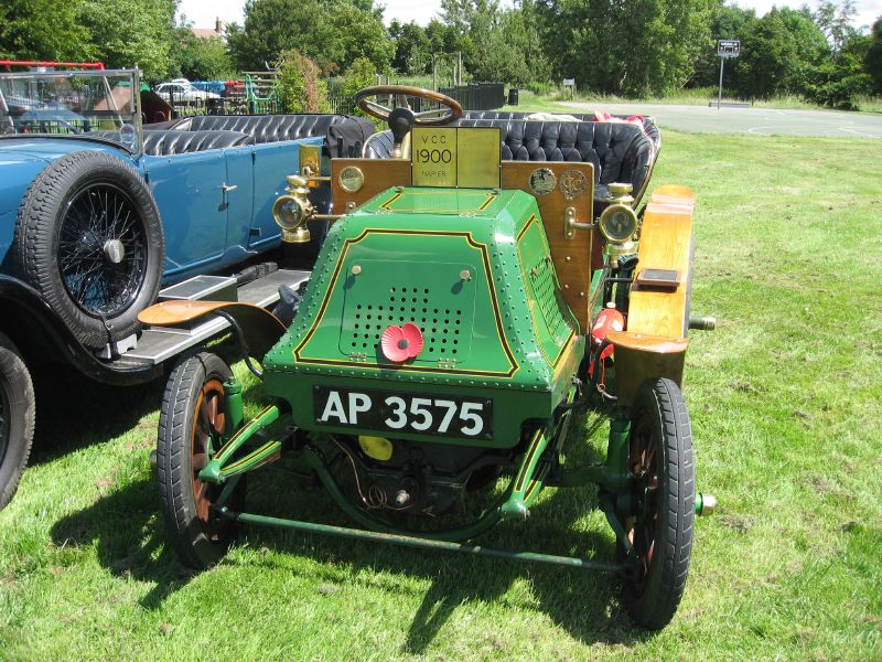 1900 Napier Double Phaeton 2-cylinder 8-hp VCC Uffington Oxfordshire picnic 8 July 2007